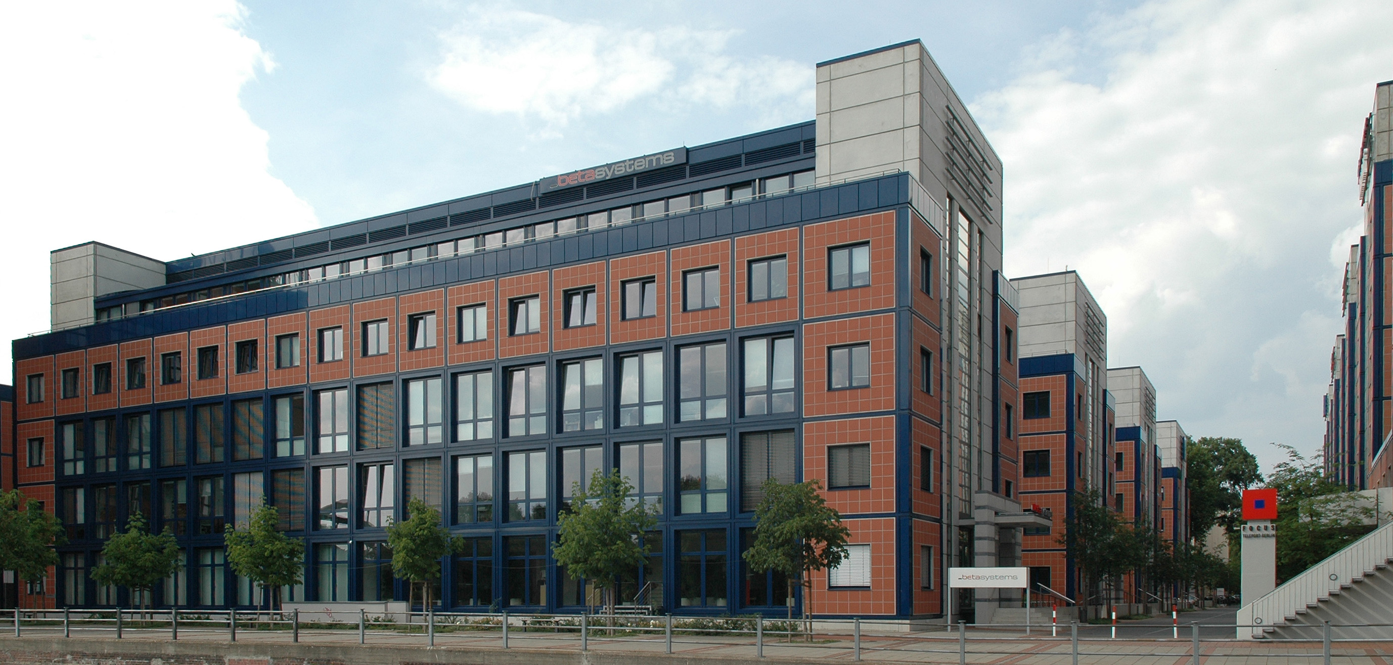 Building of software company Beta Systems, Berlin, seen from Spree.